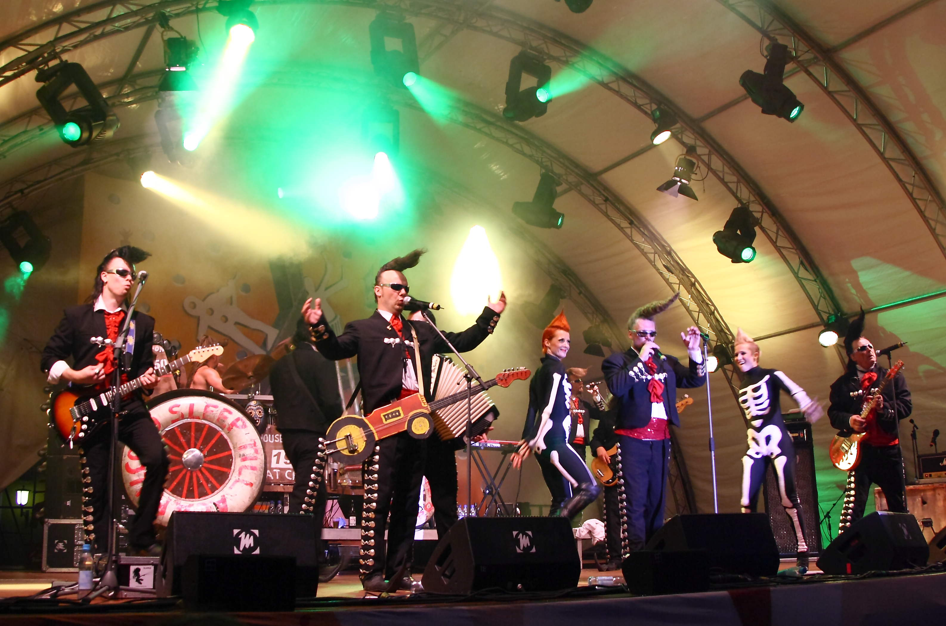 Leningrad Cowboys at TFF.Rudolstadt 2010